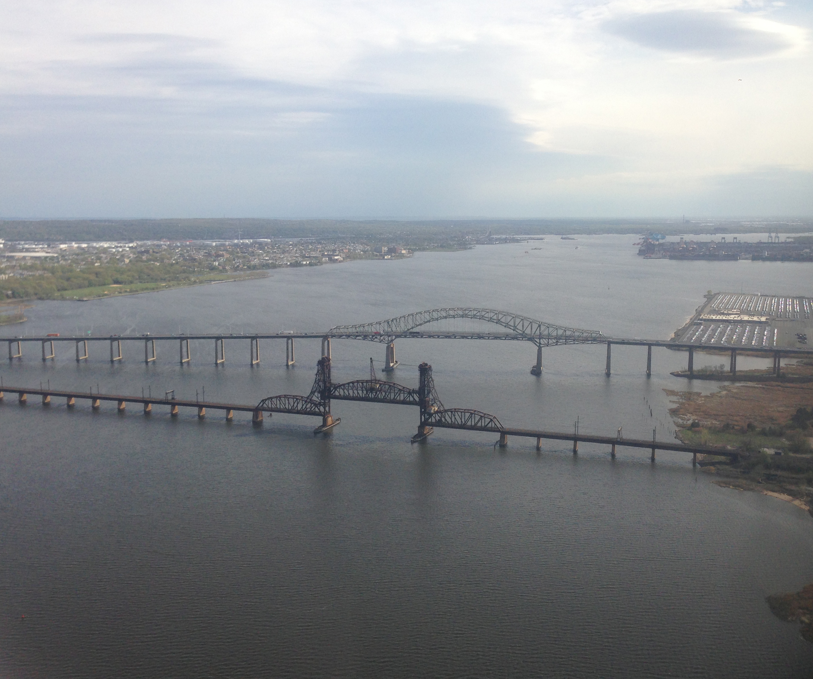 View of the Newark Bay Bridge from an airplane heading for Newark Airport-cropped